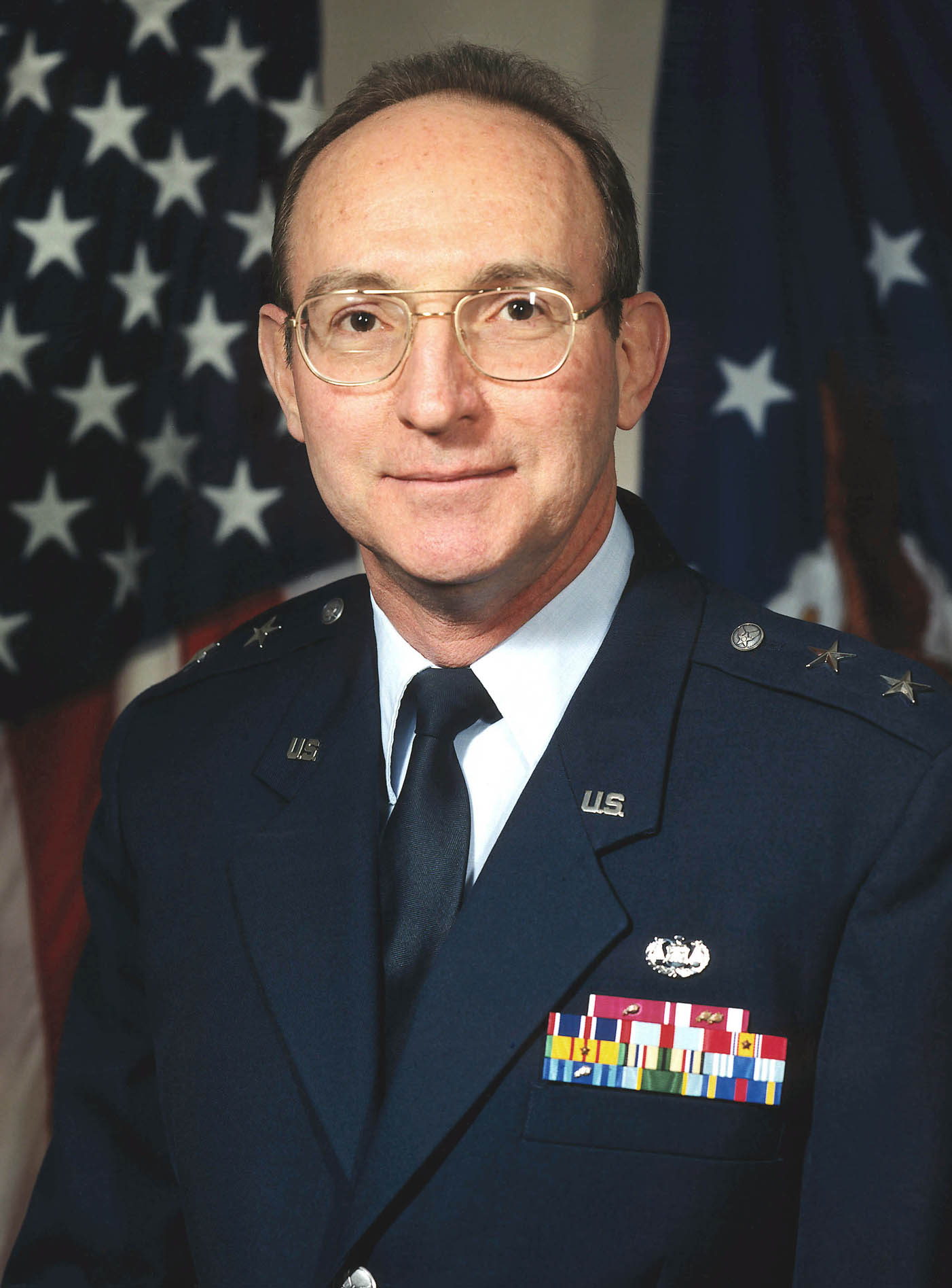 Major General Thomas J. Fiscus from [1]. Official U.S. Air Force photograph, therefore ineligible for copyright.